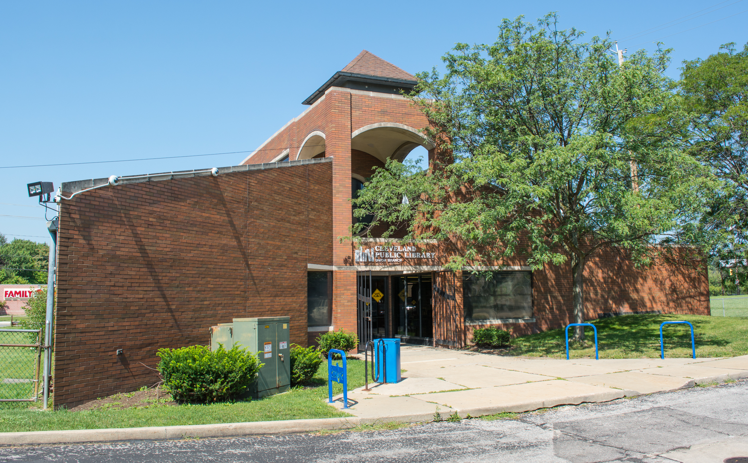 Exterior of the Union Branch of the Cleveland Public Librairy at 3463 E. 93rd Street in the Union-Miles Park neighborhood of Cleveland, Ohio, in the United States. Established as the Union Station (smaller than a branch) in 1931 at 9213 Union Avenue, the unit was promoted to "branch" status and moved into a large new building at 9319 Union Avenue in 1939. The current building was constructed in 1982 at a cost of $1.8 million ($4,500,000 in 2016 dollars).